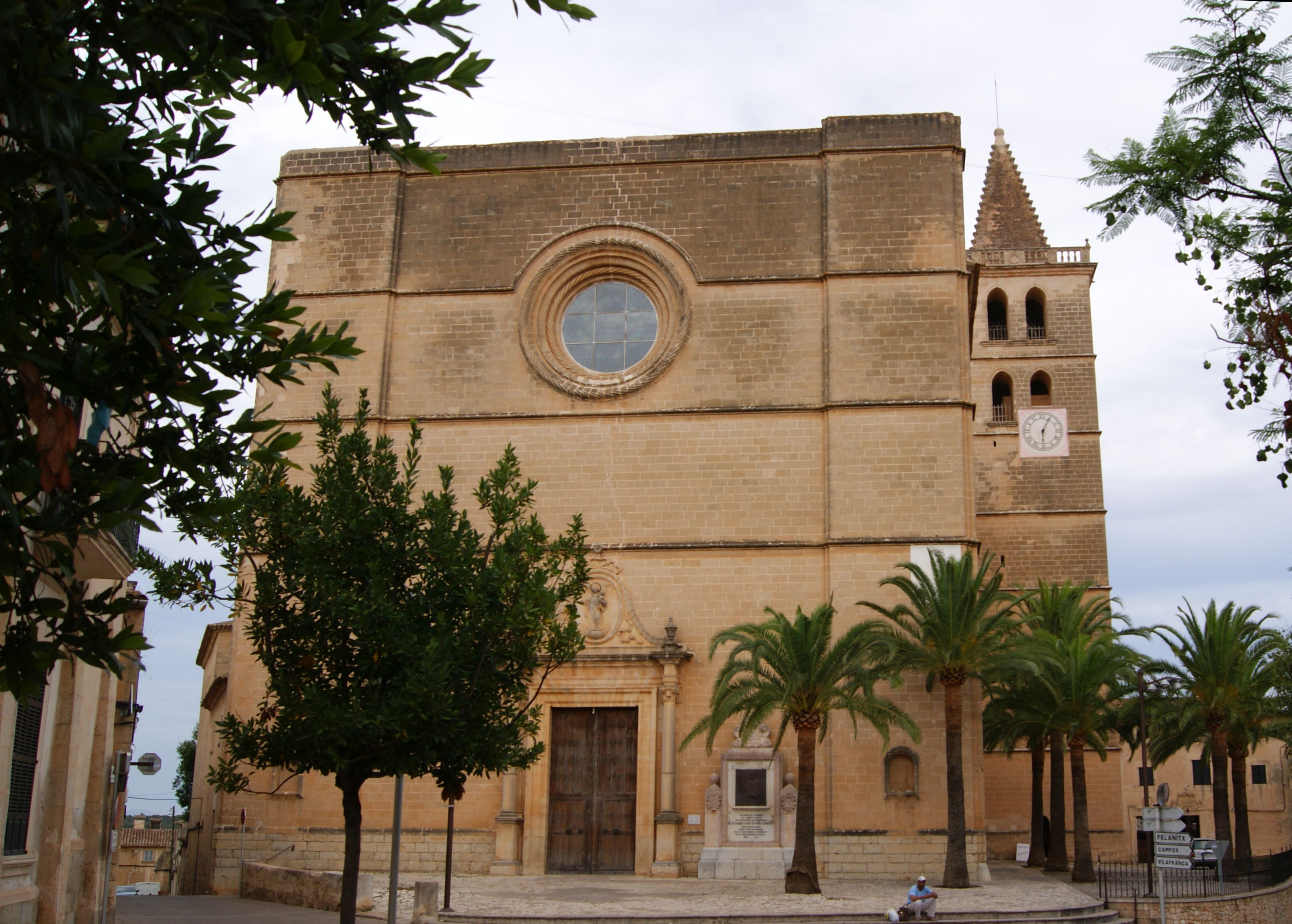 Porreres in Mallorca. Parishchurch Nostra Senyora de la Consolació.